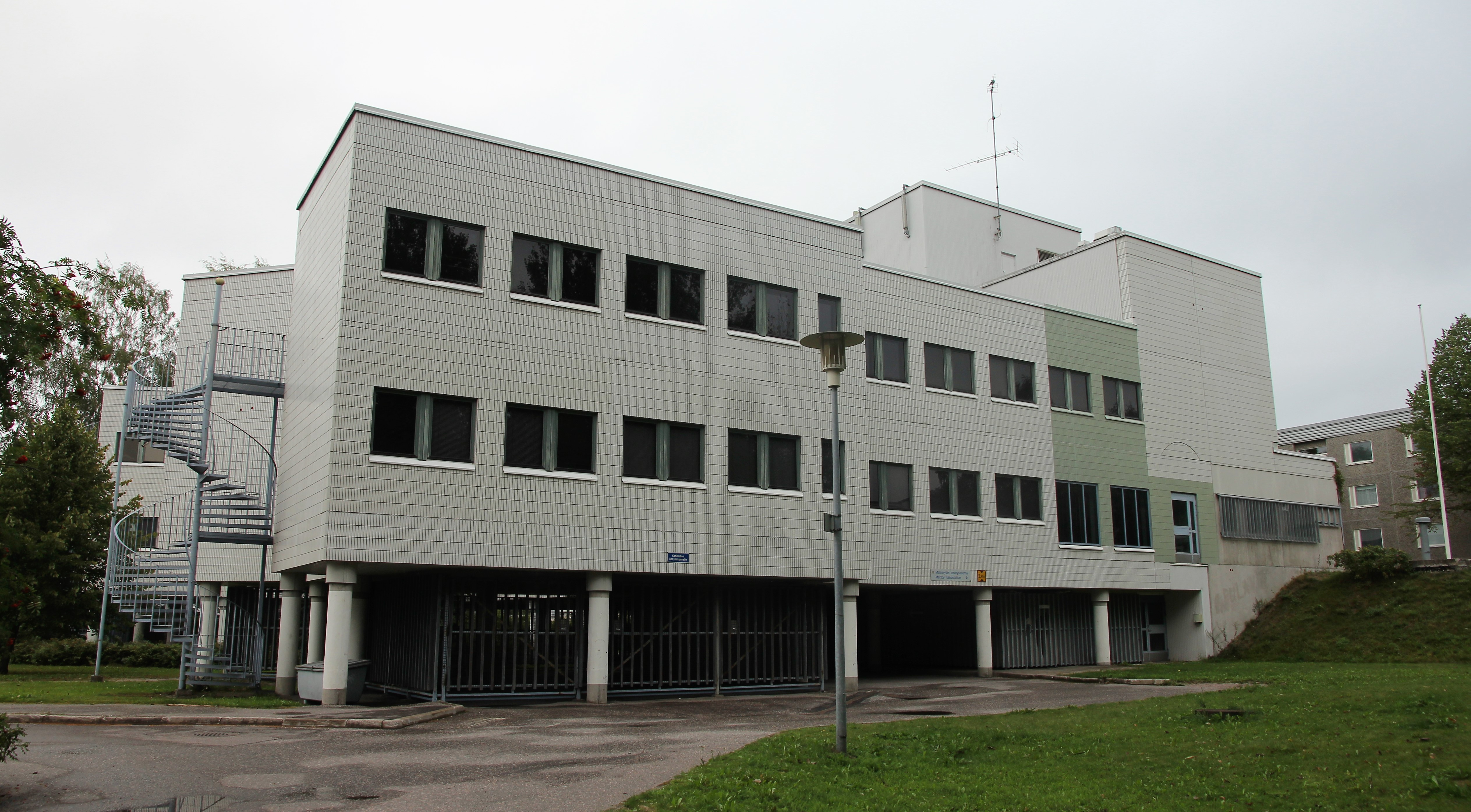 Matinkylä health station (concrete building constructed 10.4.1992) in Matinkylä, Espoo. Address: Matinkatu 1, Espoo.